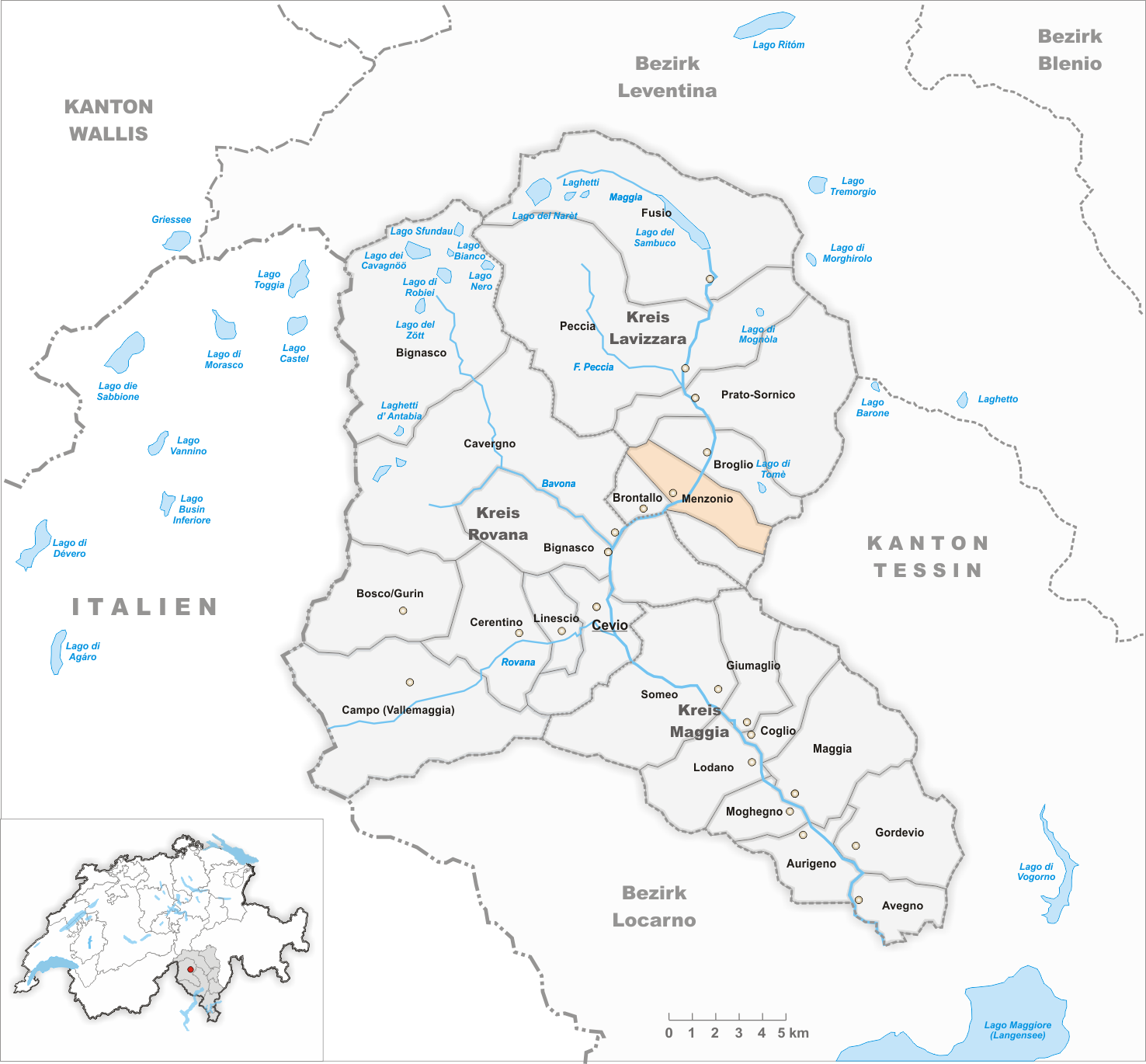 Municipality Menzonio